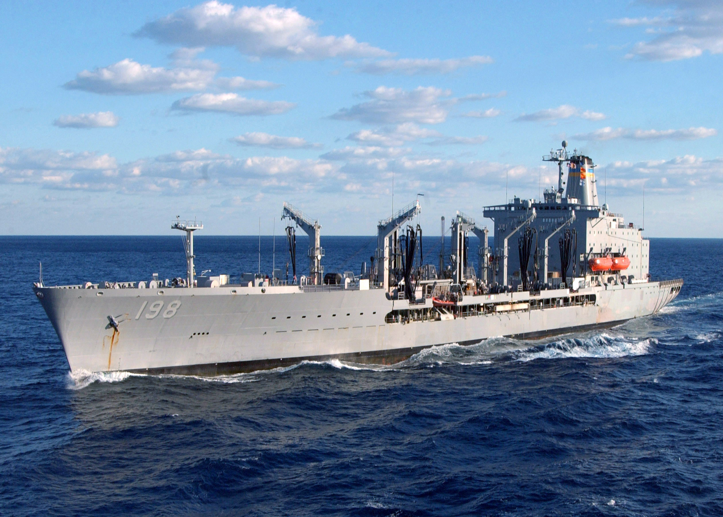 Atlantic Ocean (Oct. 17, 2005) — The Military Sealift Command (MSC) underway replenishment oiler USNS Big Horn (T-AO-198) underway in the Atlantic Ocean.